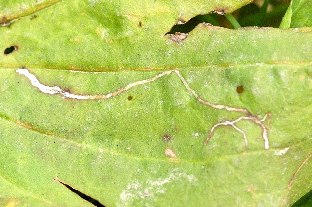 Phytomyza plantaginis from Commanster, Belgian High Ardennes .